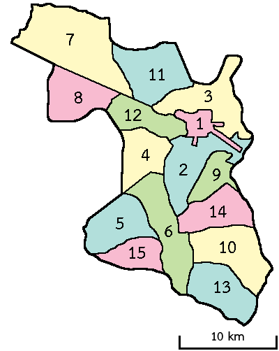 Subdistricts of Mueang Roi Et